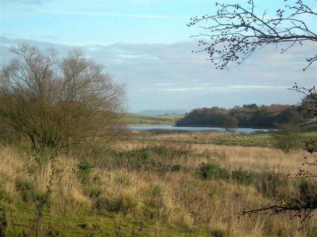 Martnaham Loch The south-west end of Martnaham Loch, viewed from the A713 on a fine November morning.